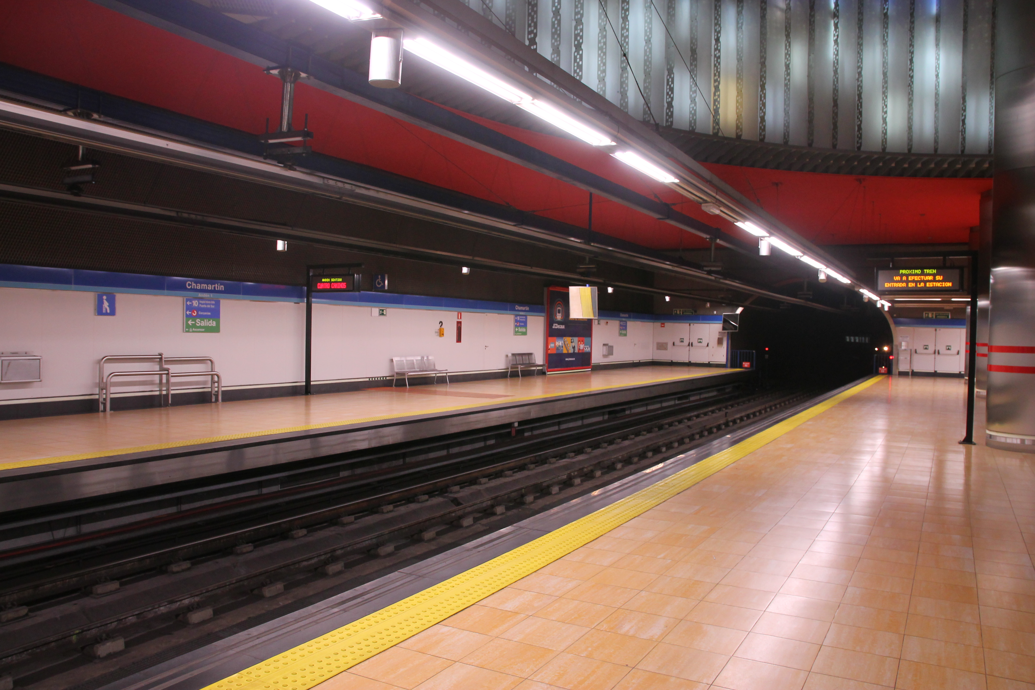 Estación de Chamartín